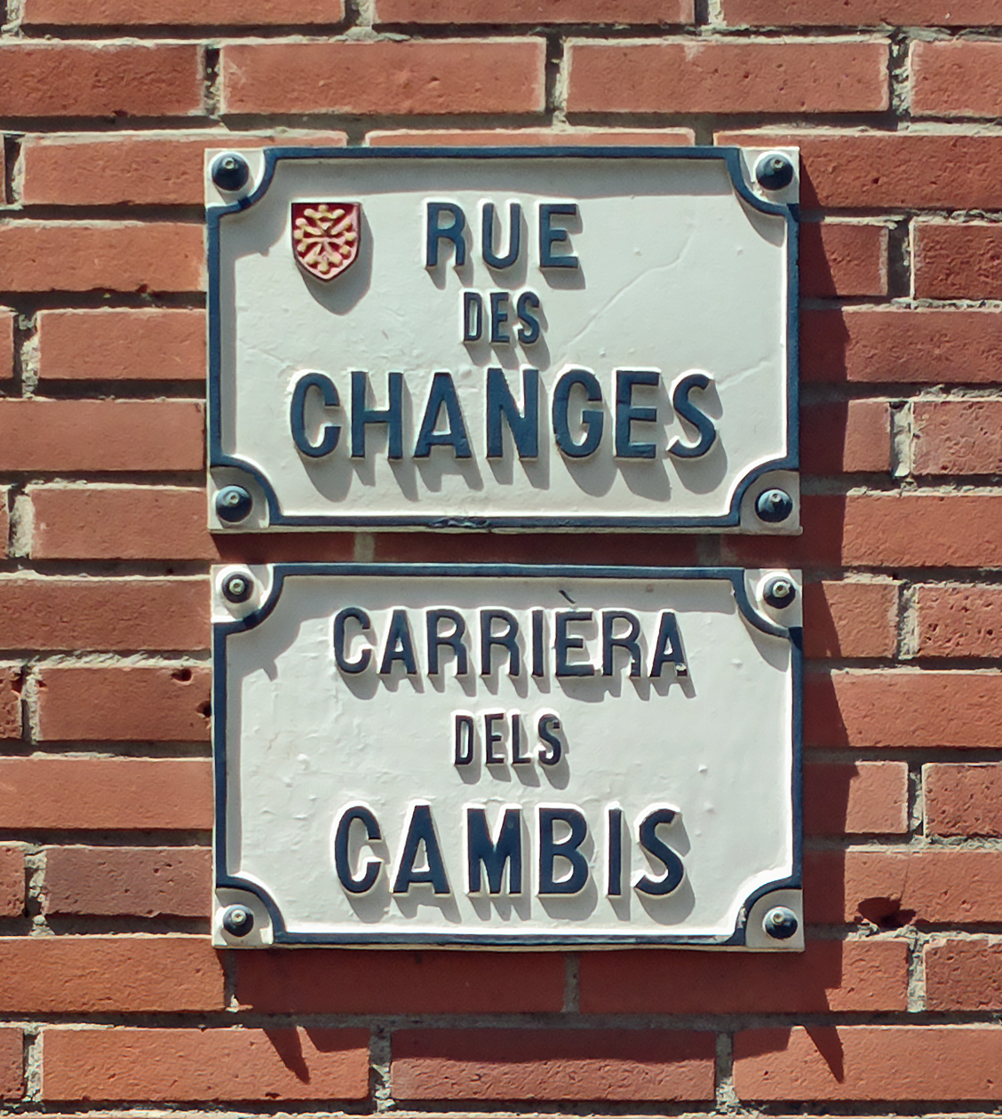 Rue des changes, in Toulouse - Street name sign. They have the particularity of being: in French and Occitan.